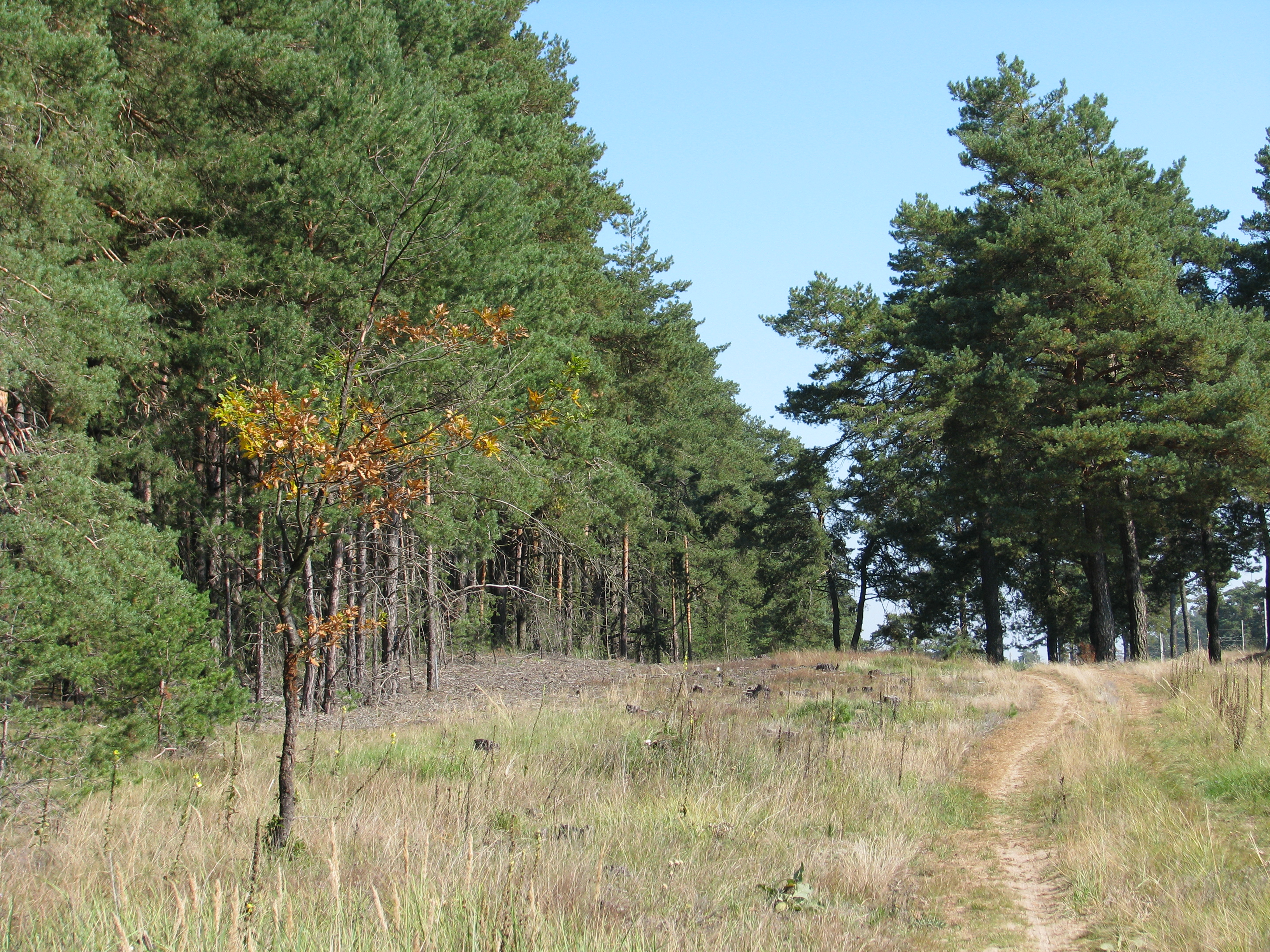 Váté písky in autumn